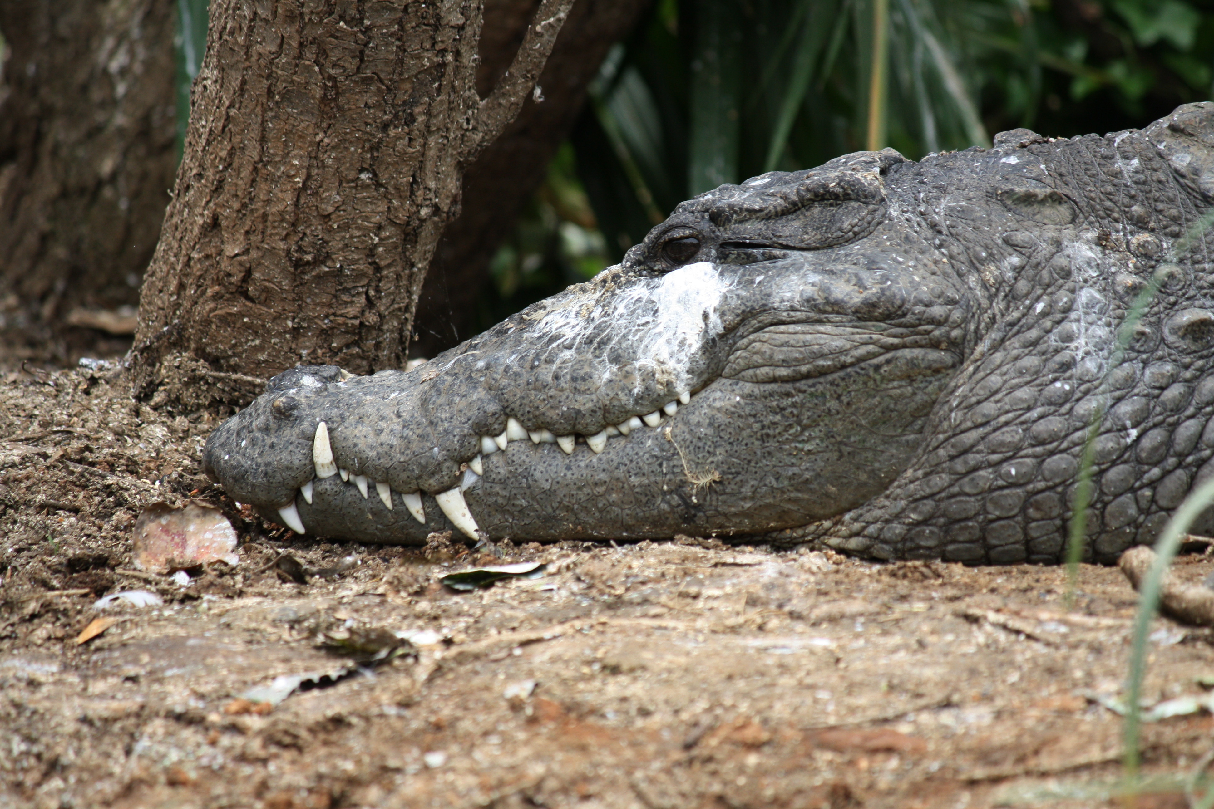 Indian Marsh crocodile or Maggar (in Hindi) in Rangnathittu Sanctury near Banglore in India.